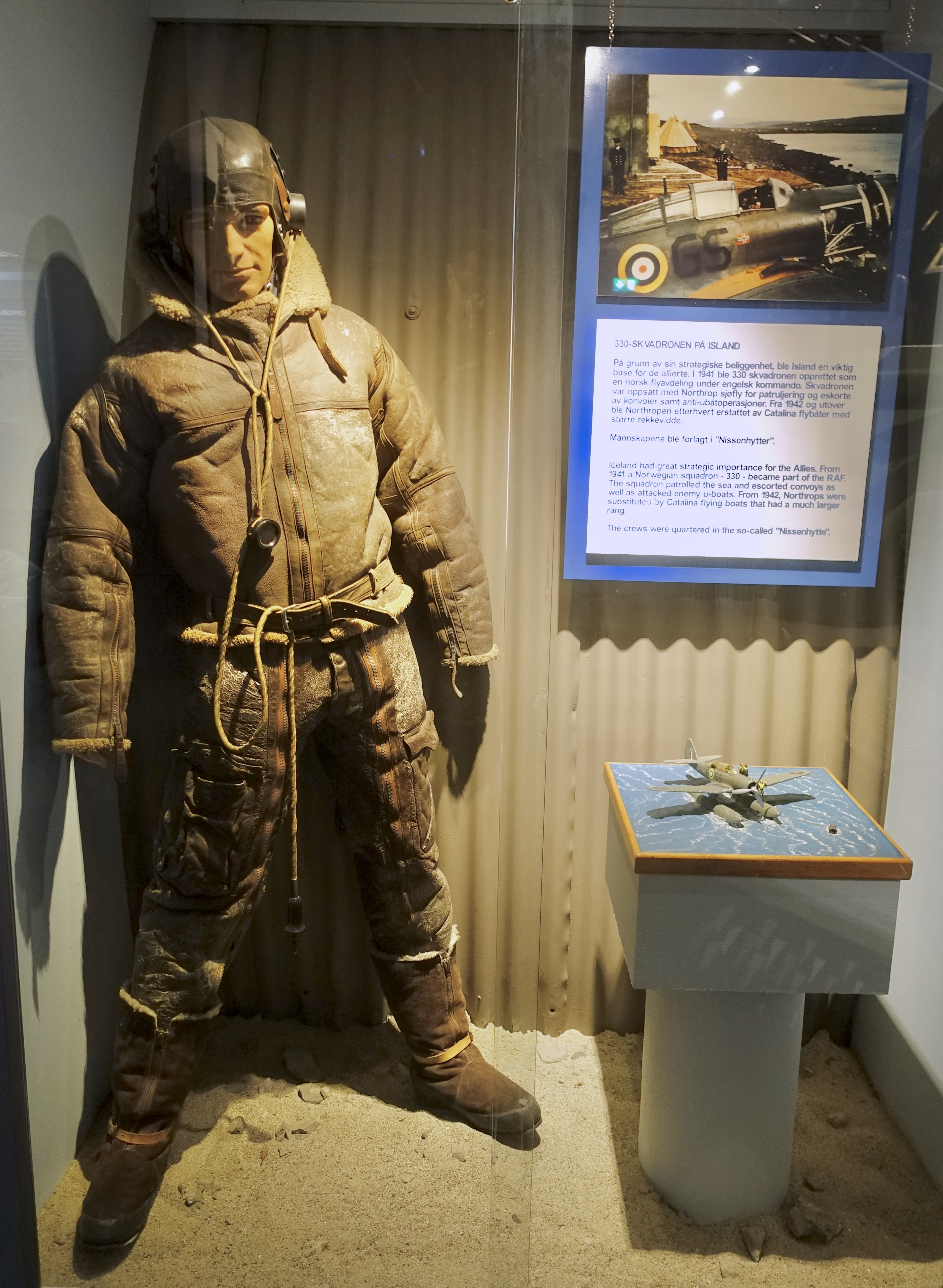 British RAF two-piece flight suit made of leather, for cold weather, with boots and flying helmet, worn by a pilot in the No. 330 Norwegian Squadron. The WW2 unit was formed at RAF Reykjavik, Iceland on 25 April 1941 and manned by exiled Norwegian aircrew. Also seen is a miniature model of a Northrop N-3PB seaplane (modell av sjøfly). From the exhibitions of the Armed Forces Museum of Norway (Forsvarsmuseet) at Akershus Fortress in Oslo, Norway. Photo taken on March 31st, 2019.